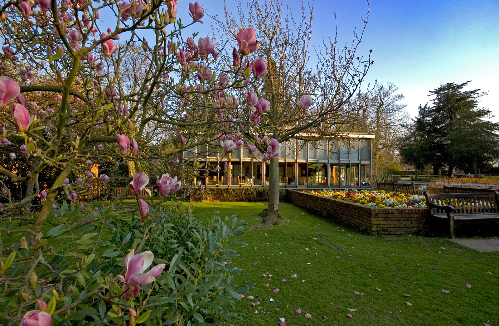 Oaks Park Cafe.